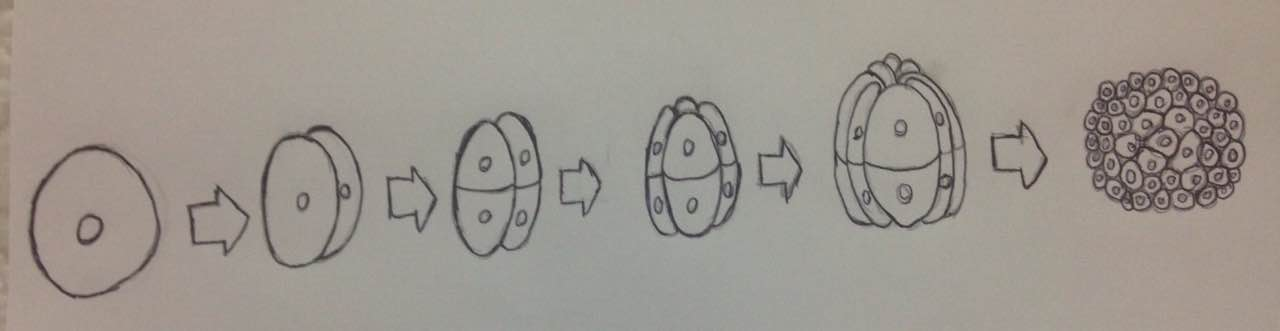 Draw of the development between zygote and morula stages.